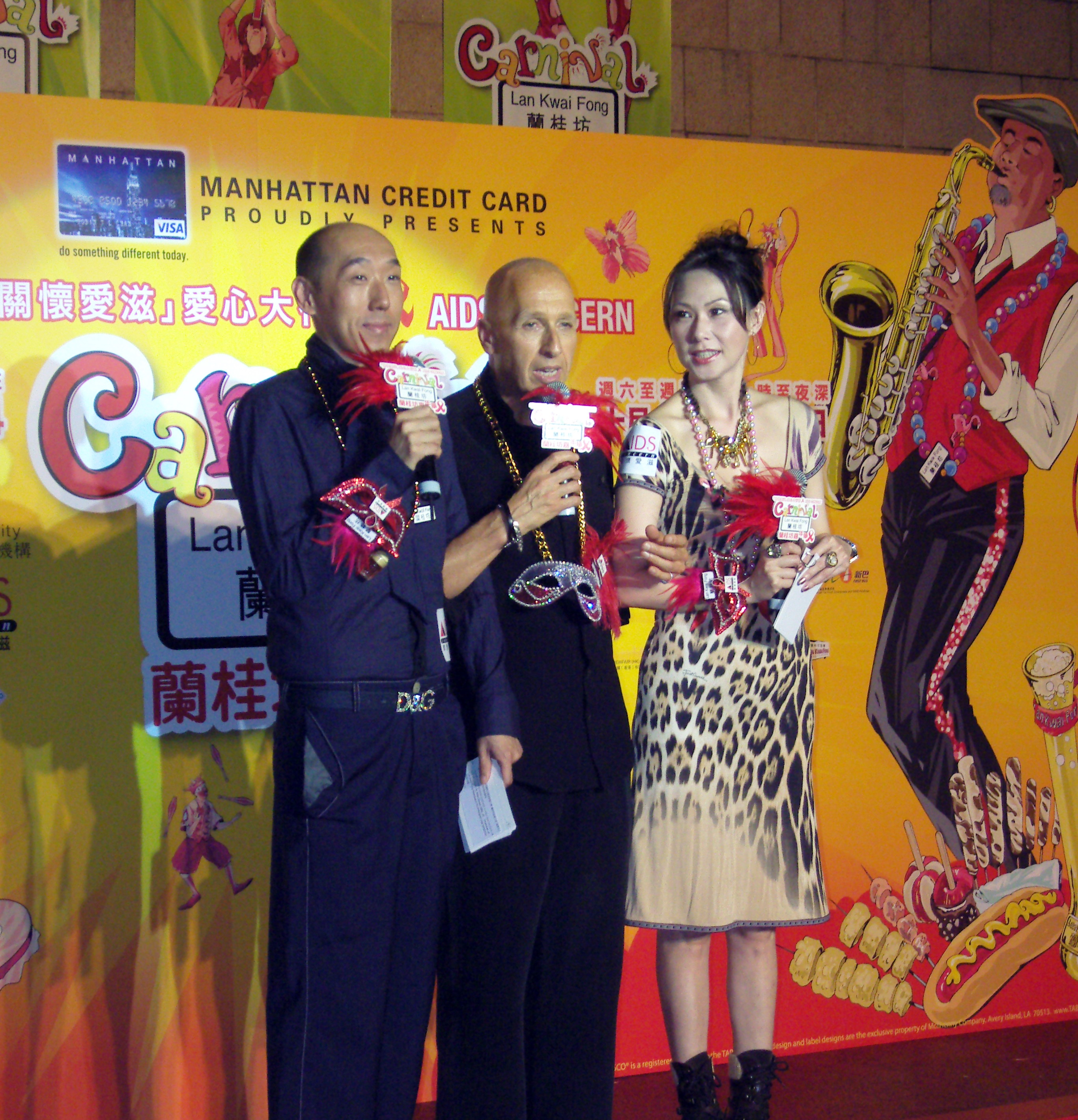 Lan Kwai Fong Carnival 2007 at Lan Kwai Fong, Central, Hong Kong.